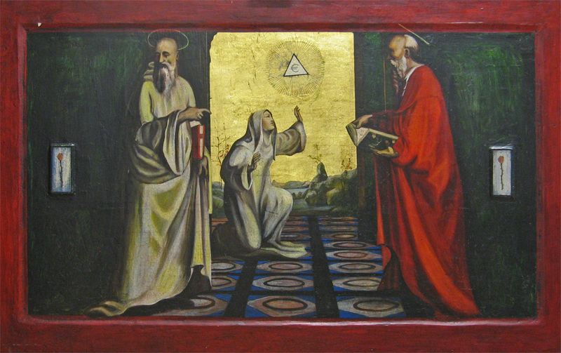 Artwork by Mall Nukke "Tõusev täht" / "Rising Star", oil, collage (2003) 2003)